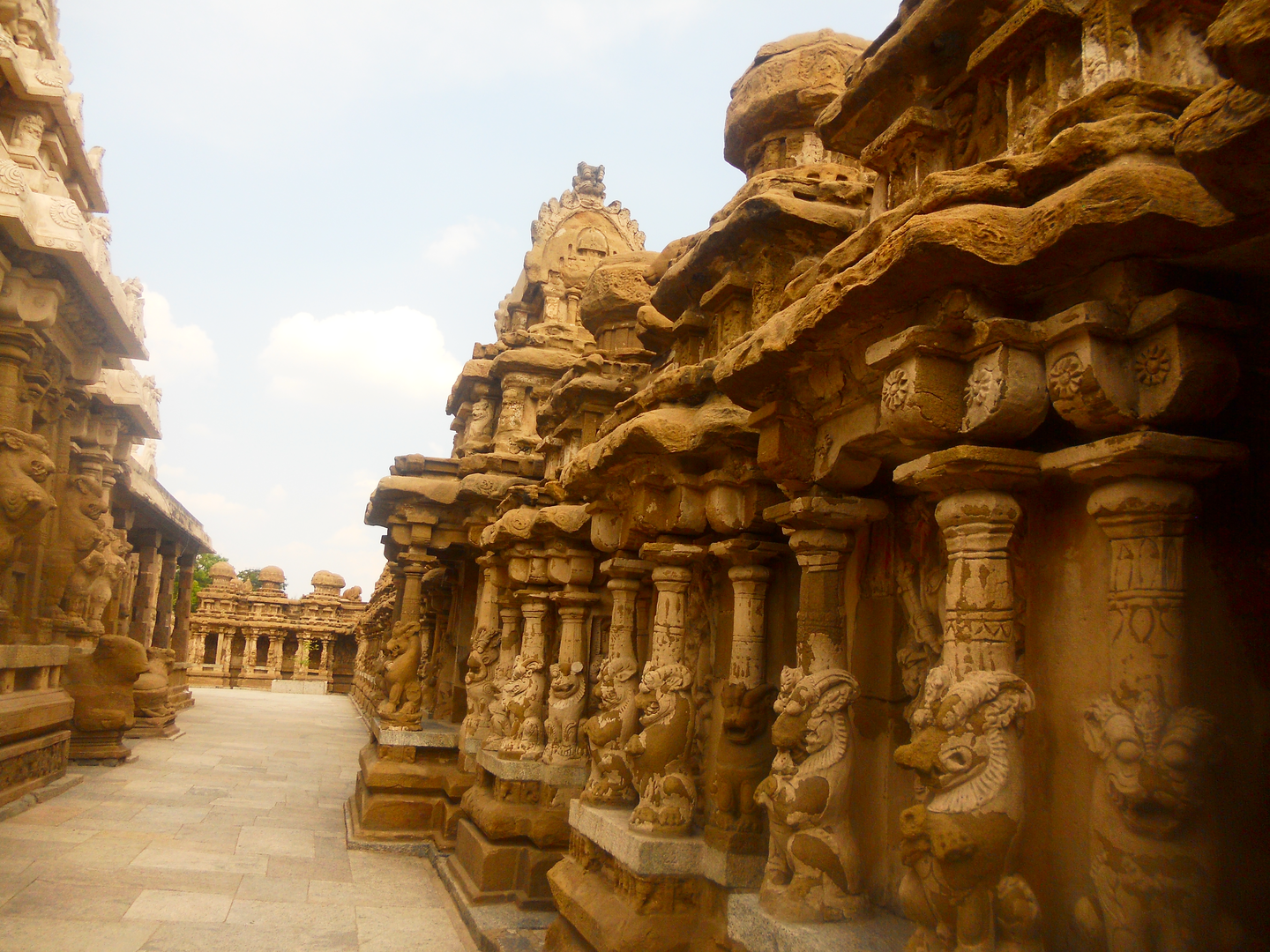 Kailasanatha Temple